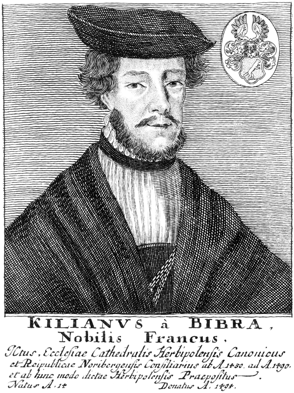 Print of Kilian von Bibra: KILIANUS à BIBRA , Nobilis Francus , JCtus , Ecclesiae Cathedralis Herbipolensis Canonicus et Reipublicae Noribergensis Consiliarius ab A. 1480. ad A. 1490. et ab hinc modo dictae Herbipolensis Praepositus . Natus A. 14 Denatus A. 1494